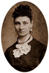 The daughter of Virginia State Senator James Murray Whittle and his second wife (and cousin) Cornelia Skipwith of Mecklenburg County, Virginia, Motoaka Whittle was descended from Pocahontas through both her father and her mother. In the fall of 1865 Motoaka Whittle married William E. Sims, and lived at the Whittle plantation Eldon in Pittsylvania County, Virginia. In 1875 her father had built for her and her husband a new home, now known as the Sims-Mitchell House, still standing in Chatham, Virginia. She died at her home in Chatham in 1901. Photo courtesy of Mark Edward Waldo, Sr.